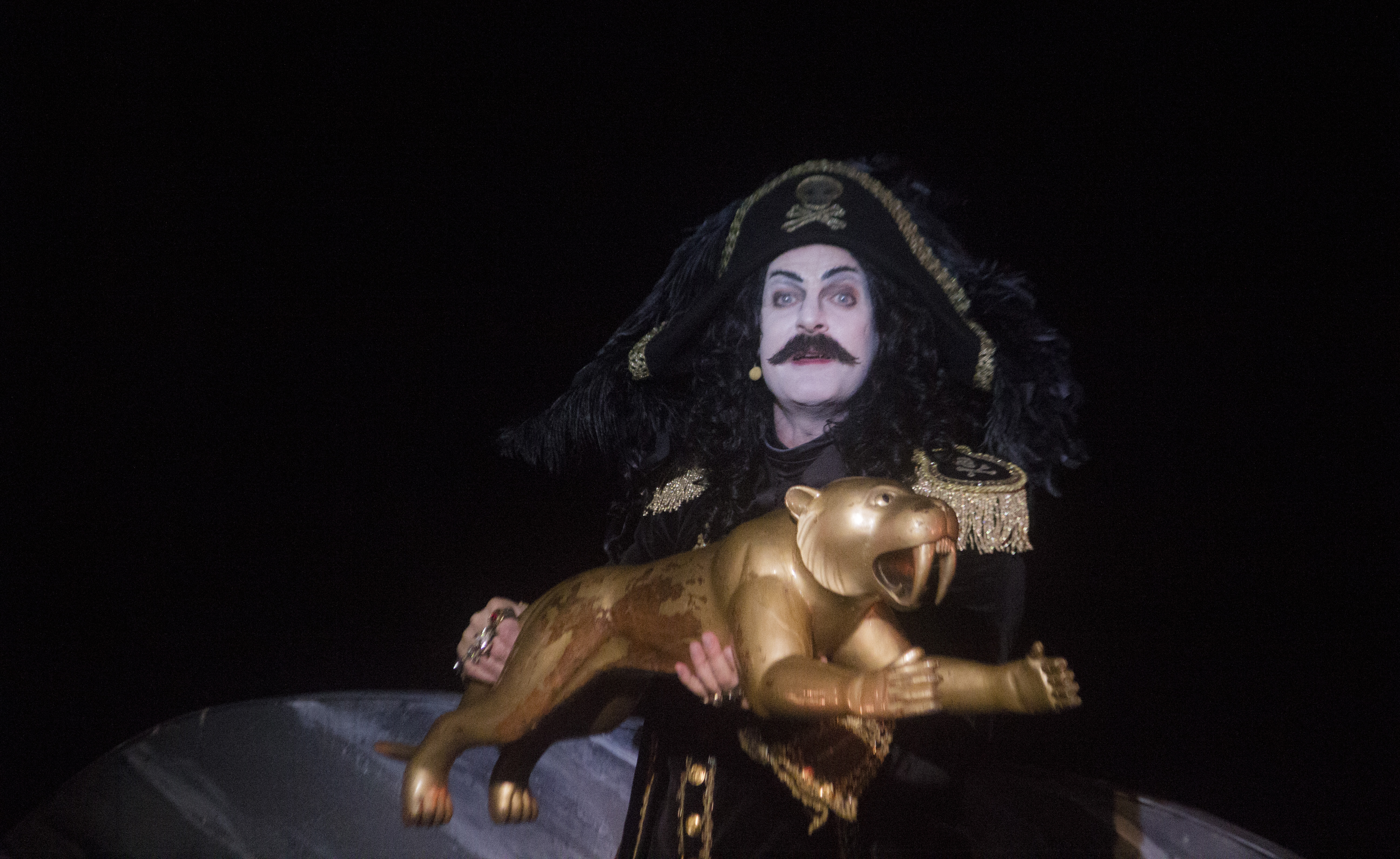 Kyrre Haugen Sydness as Kaptein Sabeltann